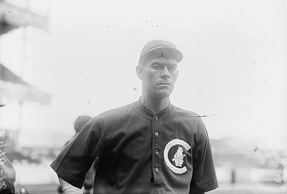 Pitcher Jimmy Lavender of the Chicago Cubs at the Polo Grounds in New York City, 1912.